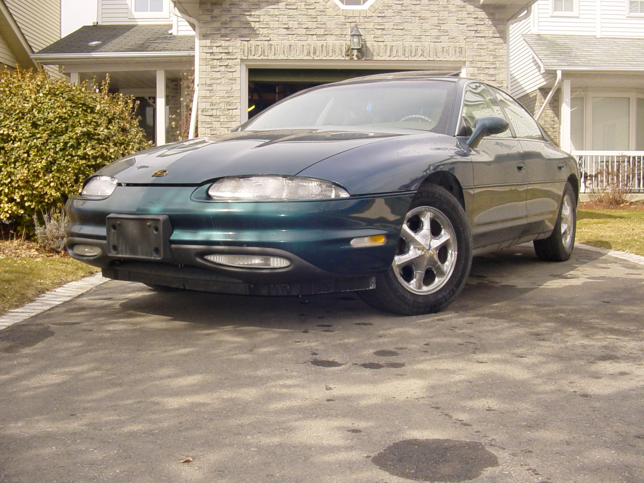 My 1998 Oldsmobile Aurora Majestic Teal Metallic